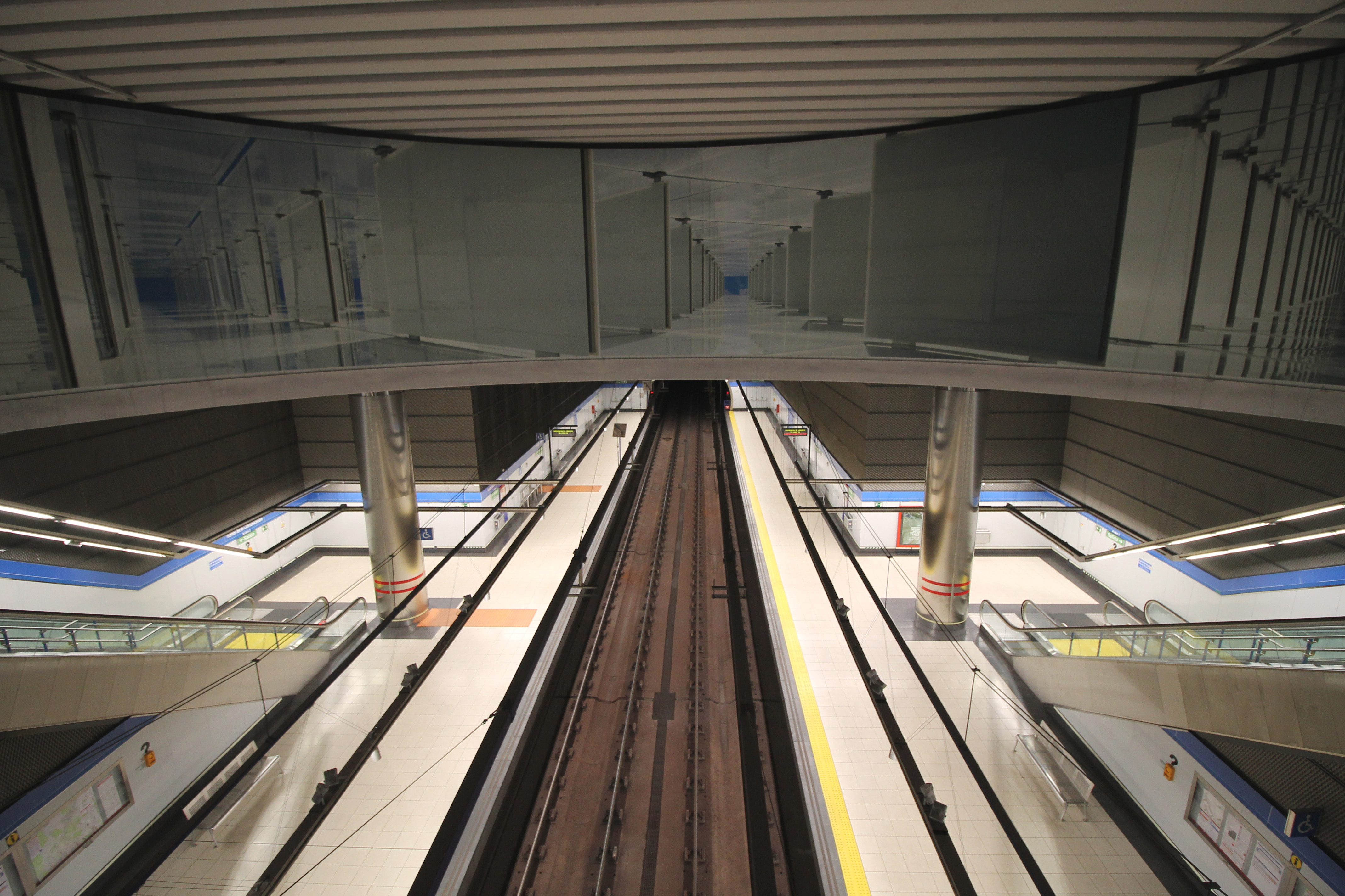 Interior of Ronda de la Comunicación metro station in Madrid (Spain).